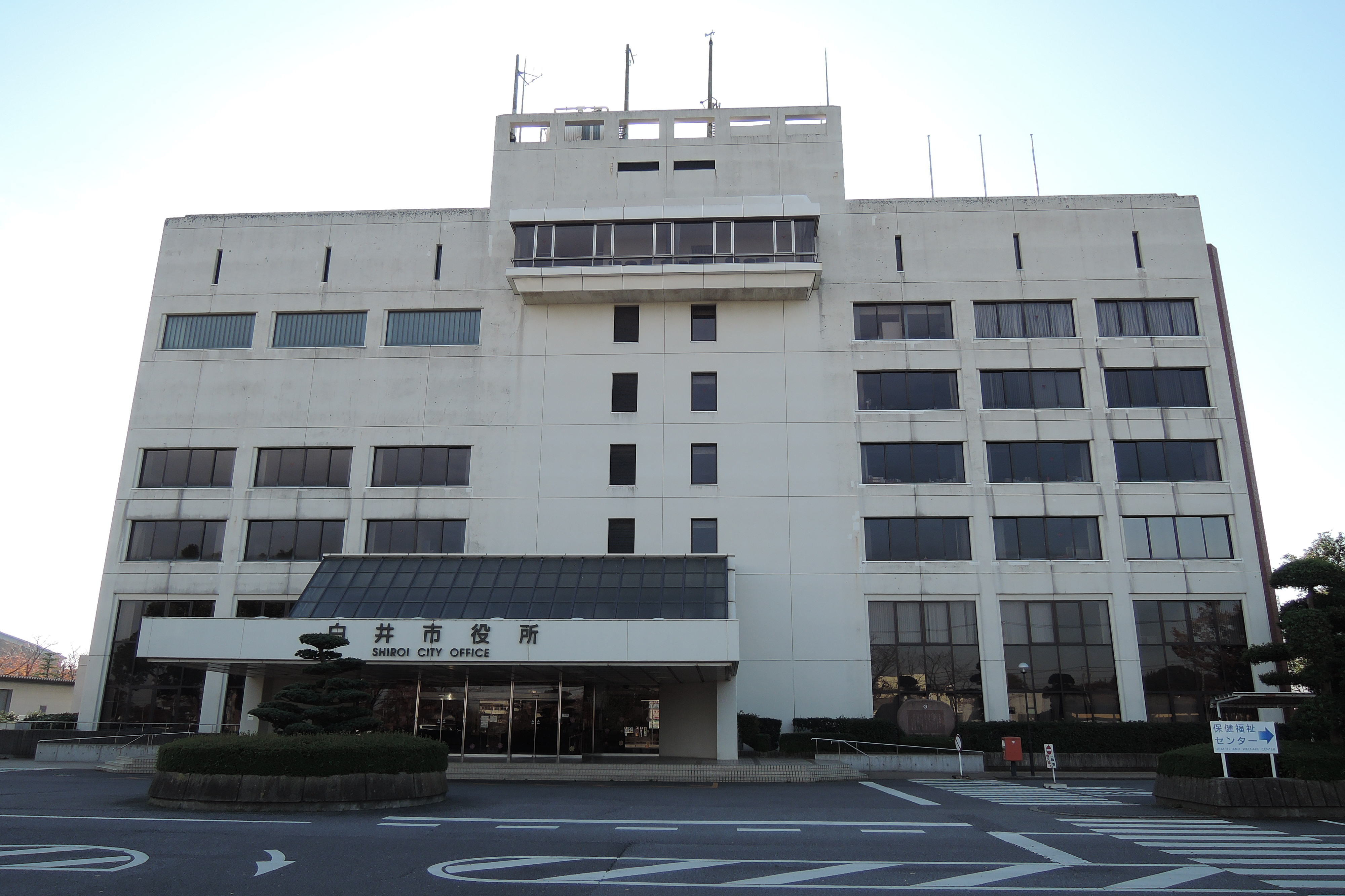 Shiroi city hall,Chiba prefecture,Japan